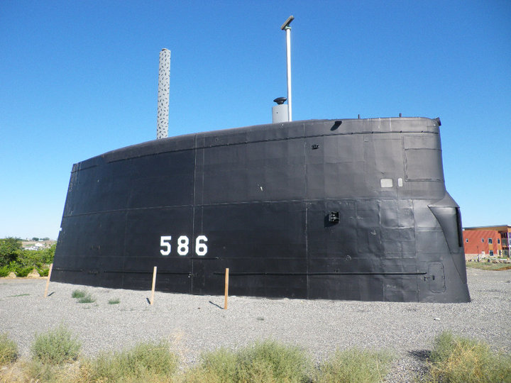 The sail of the decommissioned nuclear submarine USS Trtion, on display in a park in North Richland, Washington, USA.